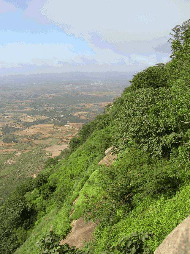 Nandi hills. 50 Km north of Bangalore, India Photo by L. Shyamal, 2005